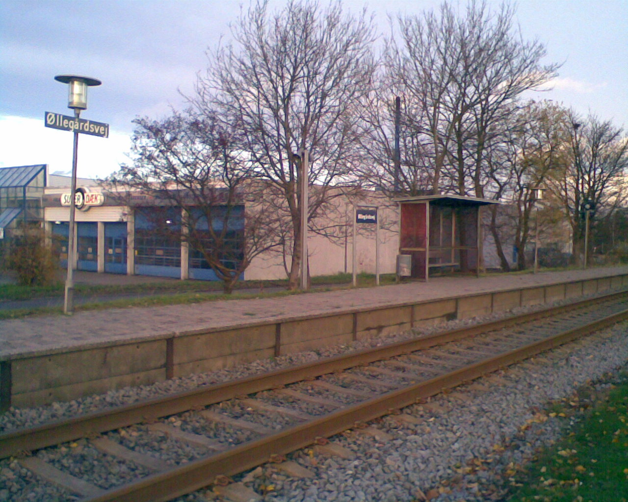 Øllegårdsvej Station, Århus, Denmark